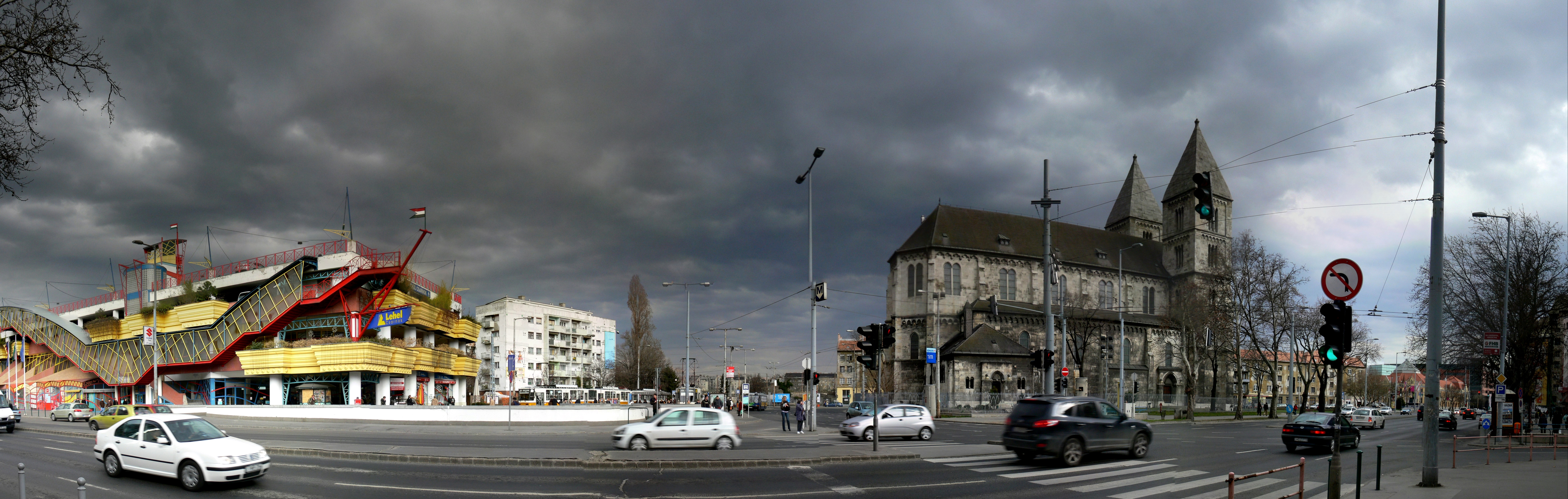 Lehel square at Budapest, Hungary. On the left the market, on the right the neo-romanesque church